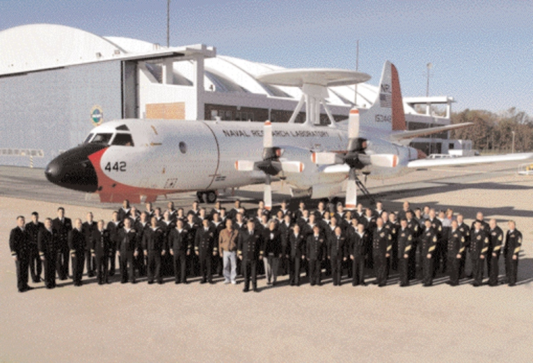 The staff oth the U.S. Navy scientific develpoment squadron VXS-1 Warlocks, based at Naval Air Station Patuxent River, Maryland (USA), in front of one of their Lockheed NP-3D Orion (BuNo 153442) in early 2005. In 2005 VXS-1 used four NP-3D Orion and had a staff of 13 officers, 66 enlisted and 12 civilians. VXS-1 was established on 13 December 2004 and was known before as the "U.S. Naval Research Laboratory Flight Support Detachment".